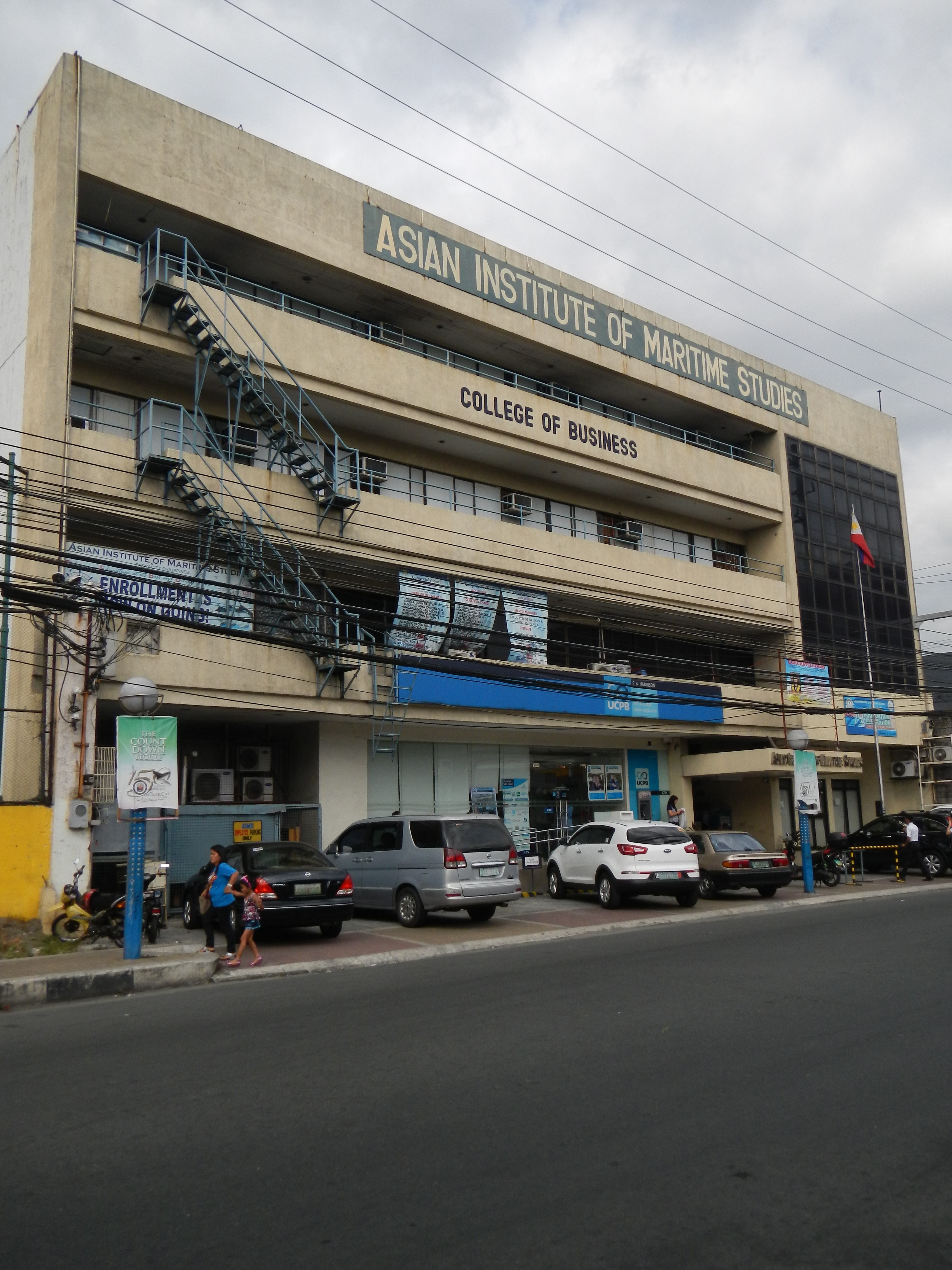 Upload Wizard of - a) Derham Park, Pasay City December 1 2003, 140th Founding Anniversary of Pasay City, Pasay Sports Complex, b) Asian Institute of Maritime Studies [1] (AIMS) is a merchant marine college in Pasay City, Philippines College of Business, c) Apolinario Mabini Statue, Barangay 721 Zone 78 District V Manila d) Malate Catholic School[2], Las Palmas Hotel e) Ang Aklatang Pambansa National Library of the Philippines[3] Rizal Park, T.M. Kalaw Avenue, Ermita, Manila.